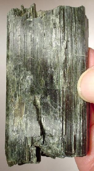 Hornblende Locality: Rhode Island, USA (Locality at ) A fine, old, classic specimen of lustrous, striated, green-black hornblende from Rhode Island. Ex Smithsonian Museum. The second label with the piece has a 1925 date. 7.5 x 4.2 x 2.7 cm